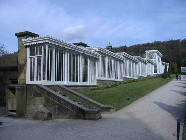 The orangery, Chatsworth House